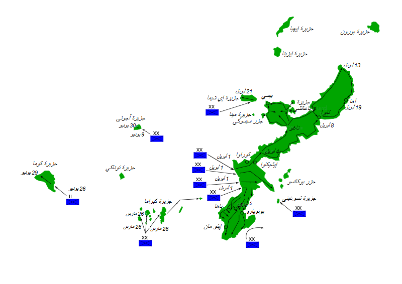 Battle of Okinawa.